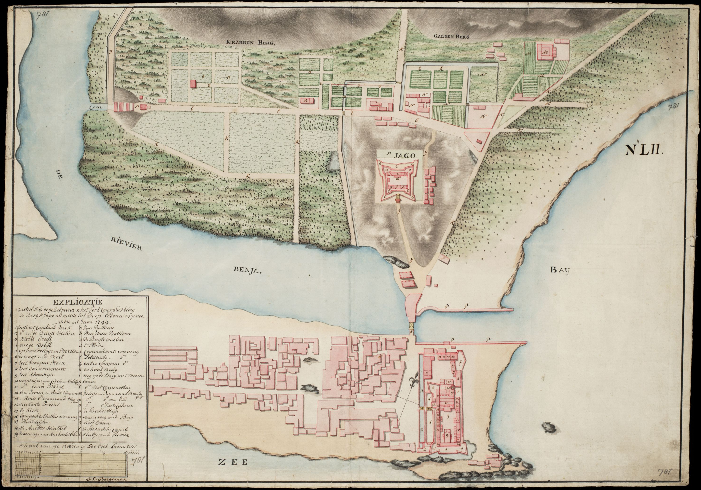 Map of Elmina showing the forts of St. George and Coenraadsburg